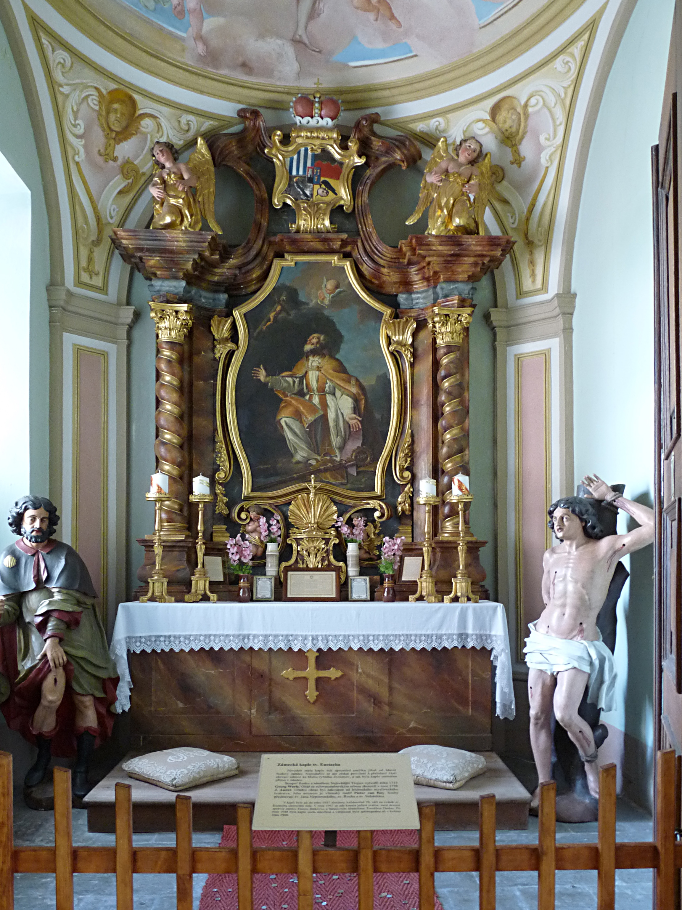 Saint Eustace Chapel altar in Hunting Lodge Ohrada near Hluboká nad Vltavou, Czech Republic